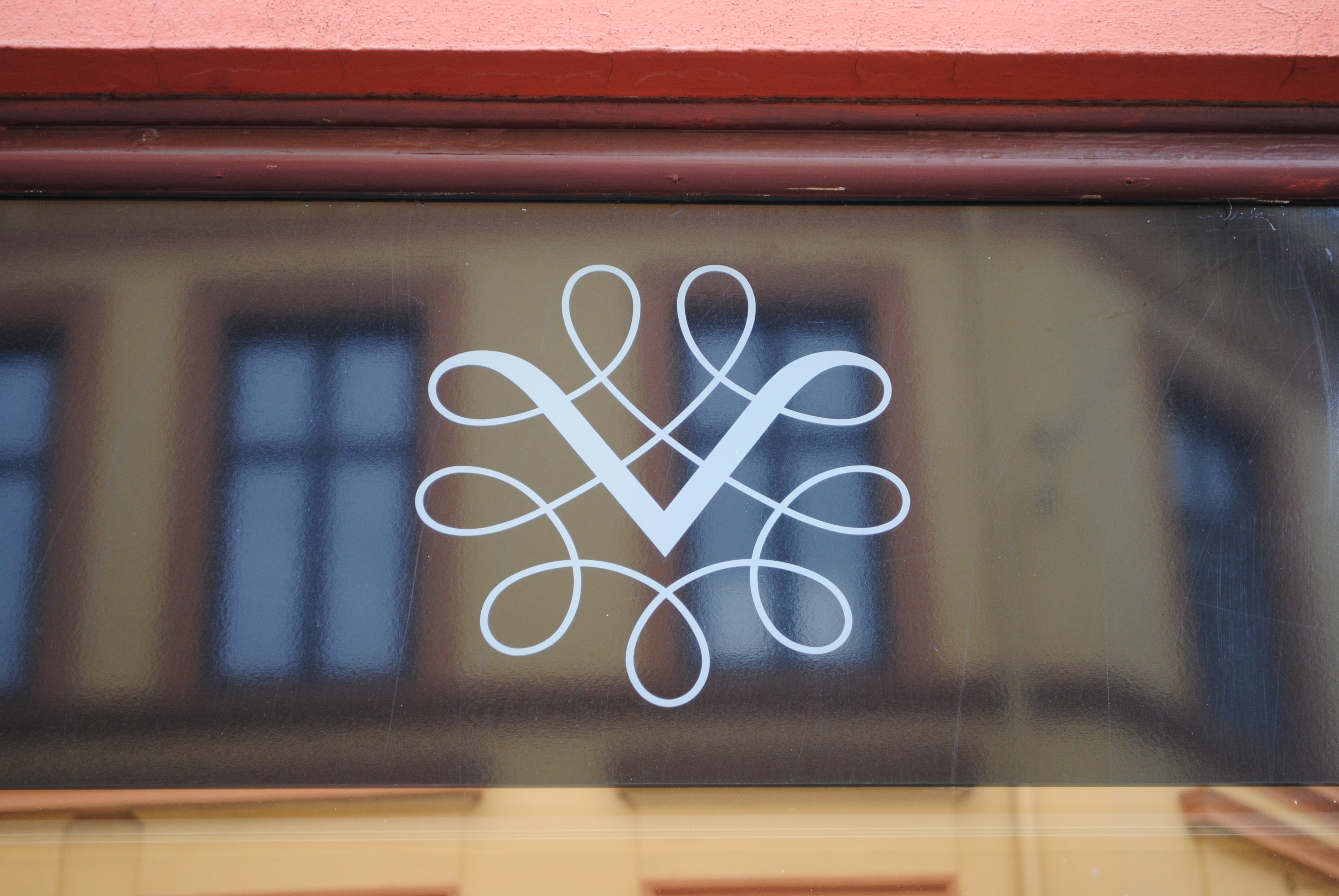 Logo of the Norwegian Wine monopoly (Vinmonopolet).